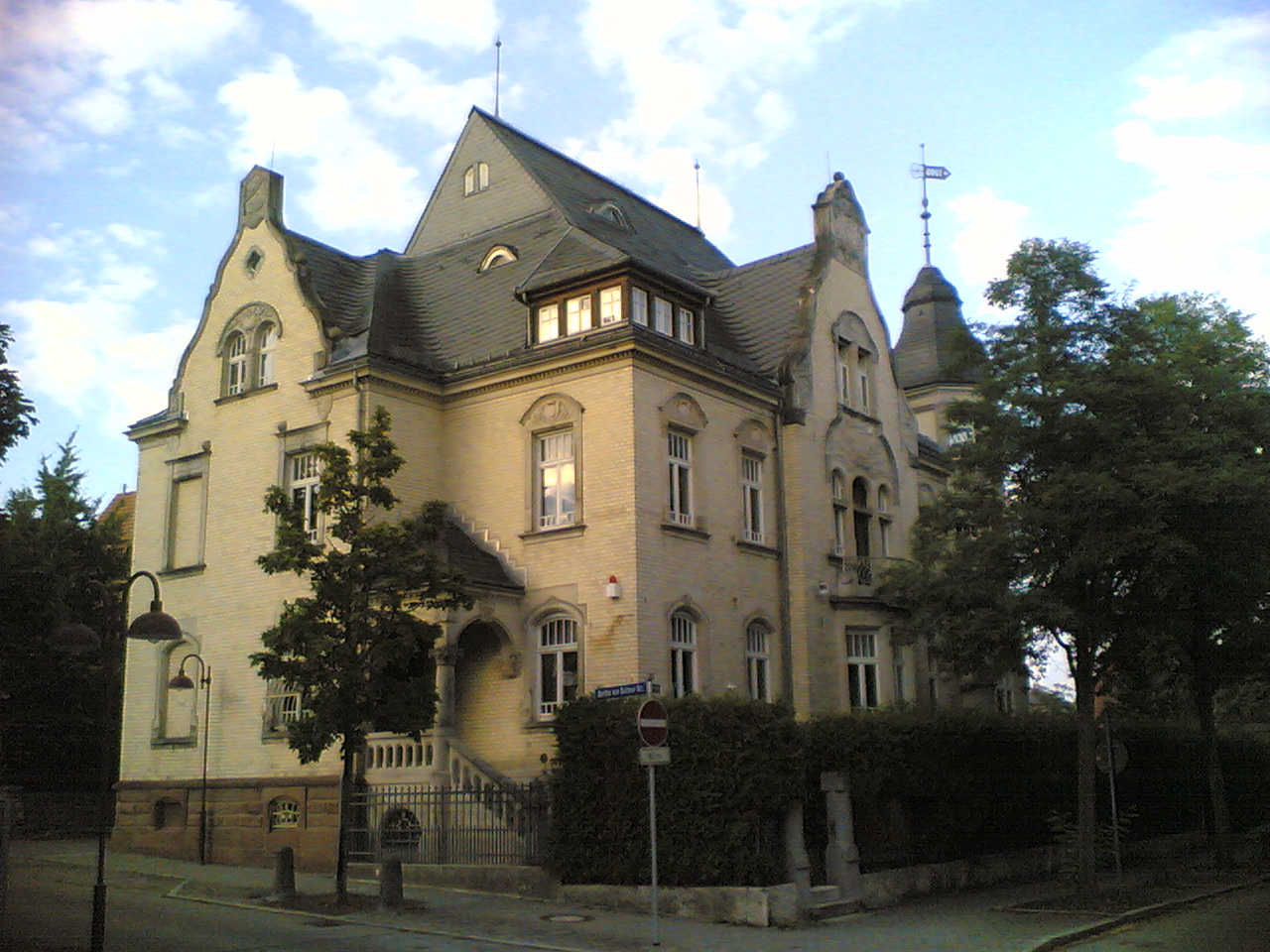 Villa Schlenker-Grusen in Villingen-Schwenningen, Germany